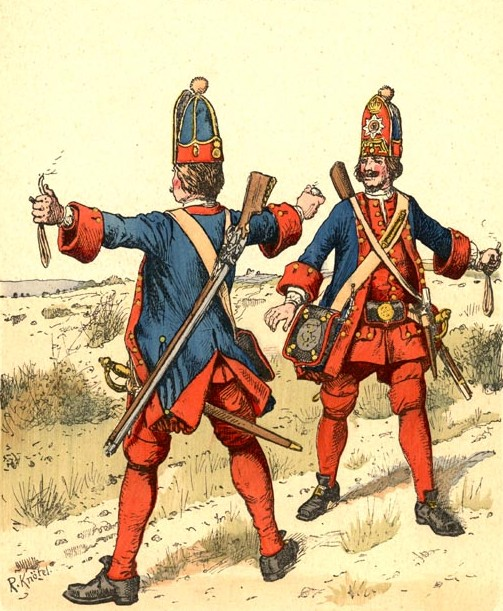 Prussian Grenadier 1715